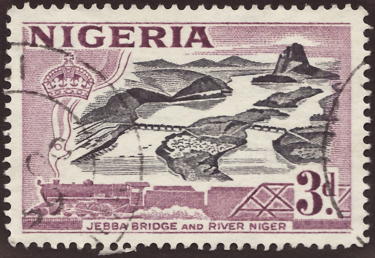 Stamp of Nigeria (British colony); 1953; definitive stamp of the issue "Pictorals"; stamp drawing of the Jebba bridge (railway bridge over the Niger River, built 1909-1915) as two-sections bridge over the island Jebba in the river Niger. In the near of the bridge on the island Jebba is located also a famous Mungo Park-Memorial.; Drawing with a British crown (without oval).; Drawing with a British crown (without oval) and a steam train running a bridge.; stamp postmarked Note: This stamp was printed in two different procedures (plate I + Ia): The print of plate I was performed by the English printery "Waterlow & Sons" by recess printing ("flat-bad-procedure") in 1953 and has finer lines of shading and at the mountains as the other issue. The print of plate Ia was performed in Belgium by recess printing ("rotary procedure") in 1958 and has thicker lines of shading (in darker colours). Also the mountains in the background appear much darker by that. Stamp: Michel: No. 76; Yvert et Tellier: No. 80; Scott: No. 84I Color: purple to lilac / black Watermark: Nigeria No. 2 (= Great Britain No. 4) (multiple St.Edward's crown over convoluted charcters "CA") Nominal value: 3 d. ((old) Penny) Postage validity: from 1 September 1953 until ? Stamp picture size : 35.5 x 23.0 mm